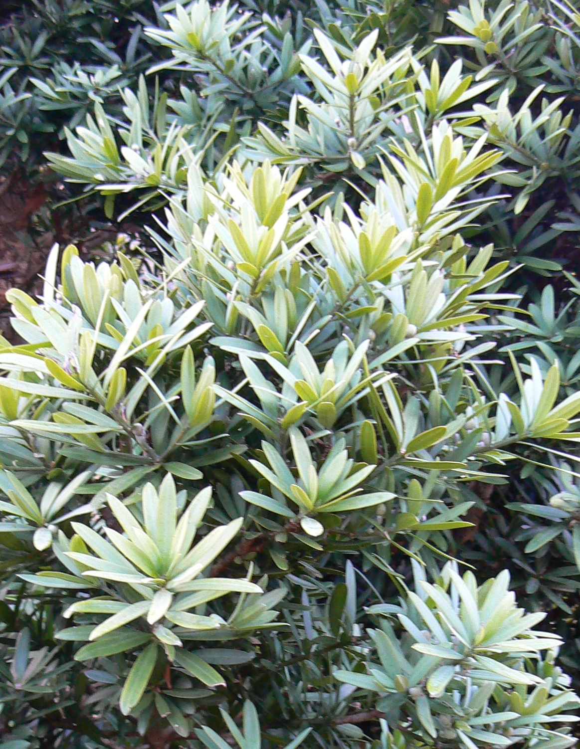 Podocarpus latifolius or Real Yellowwood tree. Foliage. Cape Town.